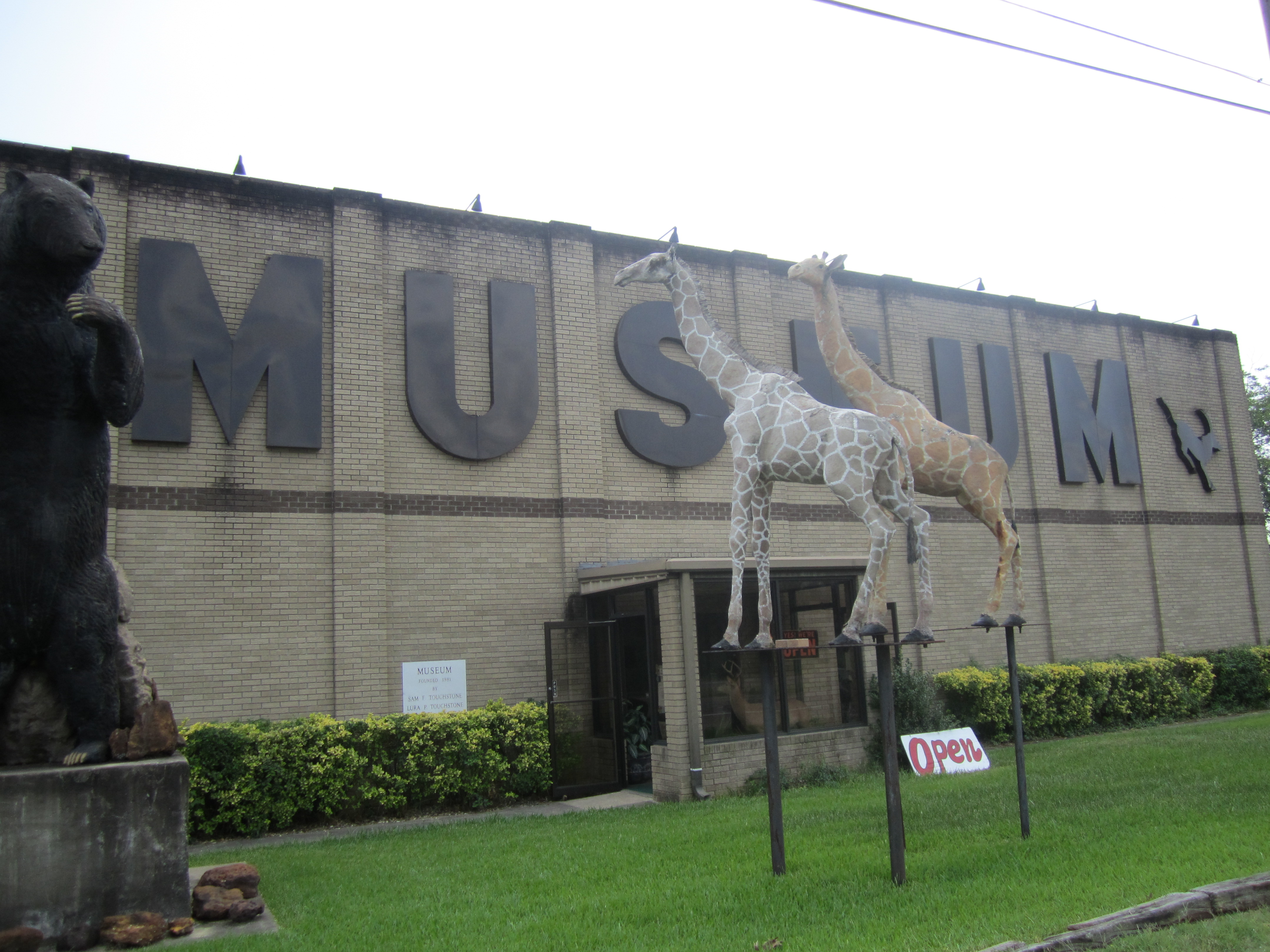 I took photo with Canon camera in Haughton, LA.